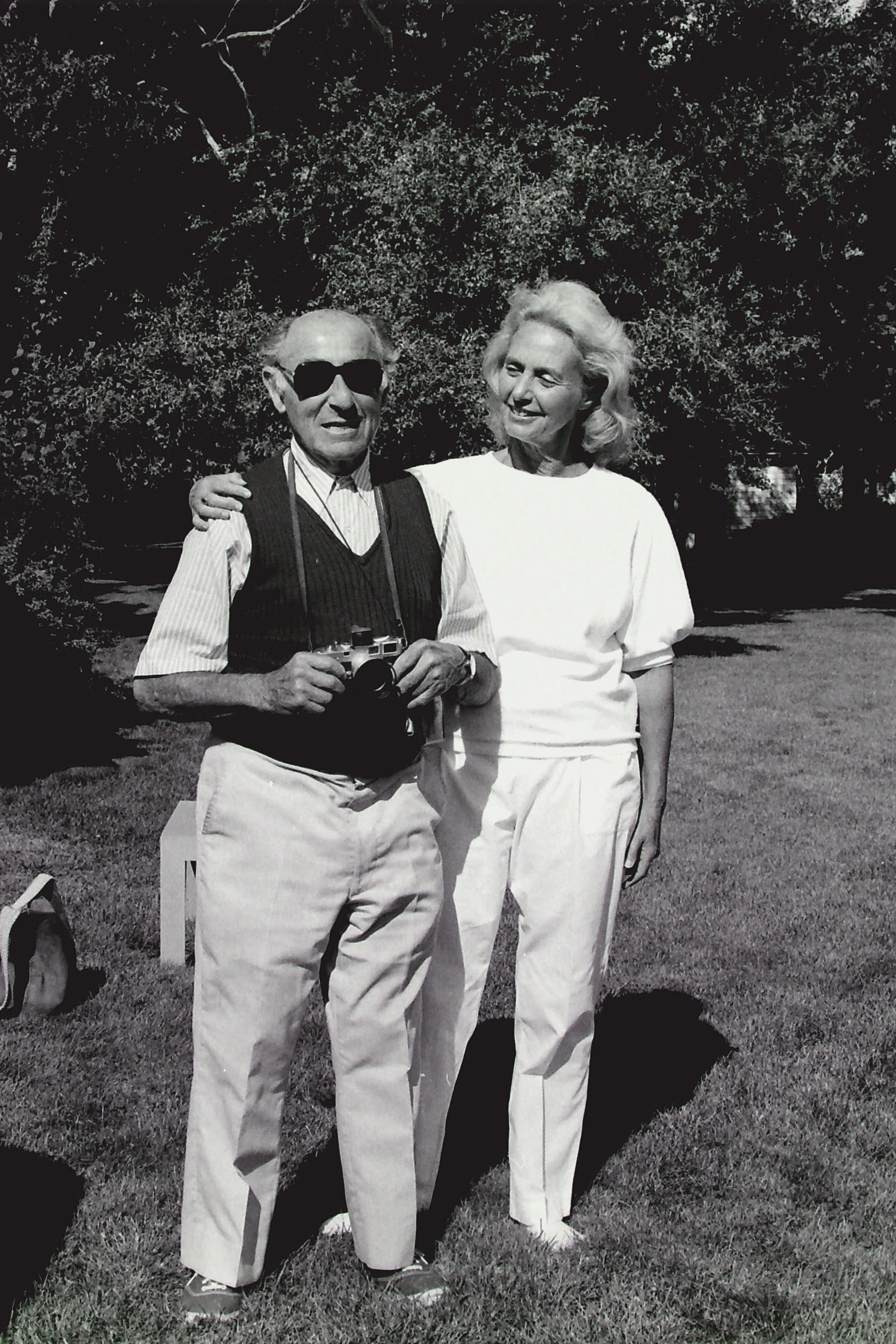 Alfred Eisenstaedt (Eisie) with Rose Styron at the Styron's home located along Vineyard Haven Harbor on the island of Martha's Vineyard, Massachusetts, USA. Eisenstaedt was visiting the Syron's for the purpose of photographing Bill Styron. Eisenstaedt was in the process of composing a book entitled, "Eisenstaedt, Martha's Vineyard". Eisie used his favorite (and very old) Leica / a camera to photograph Styron.